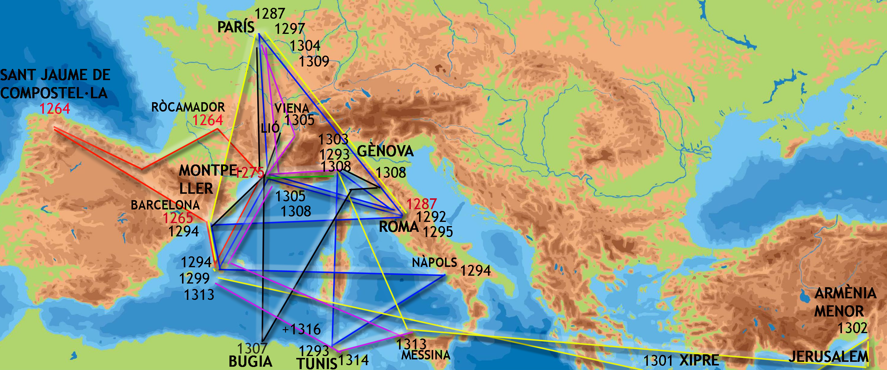 Map of the travels of Ramon Llull